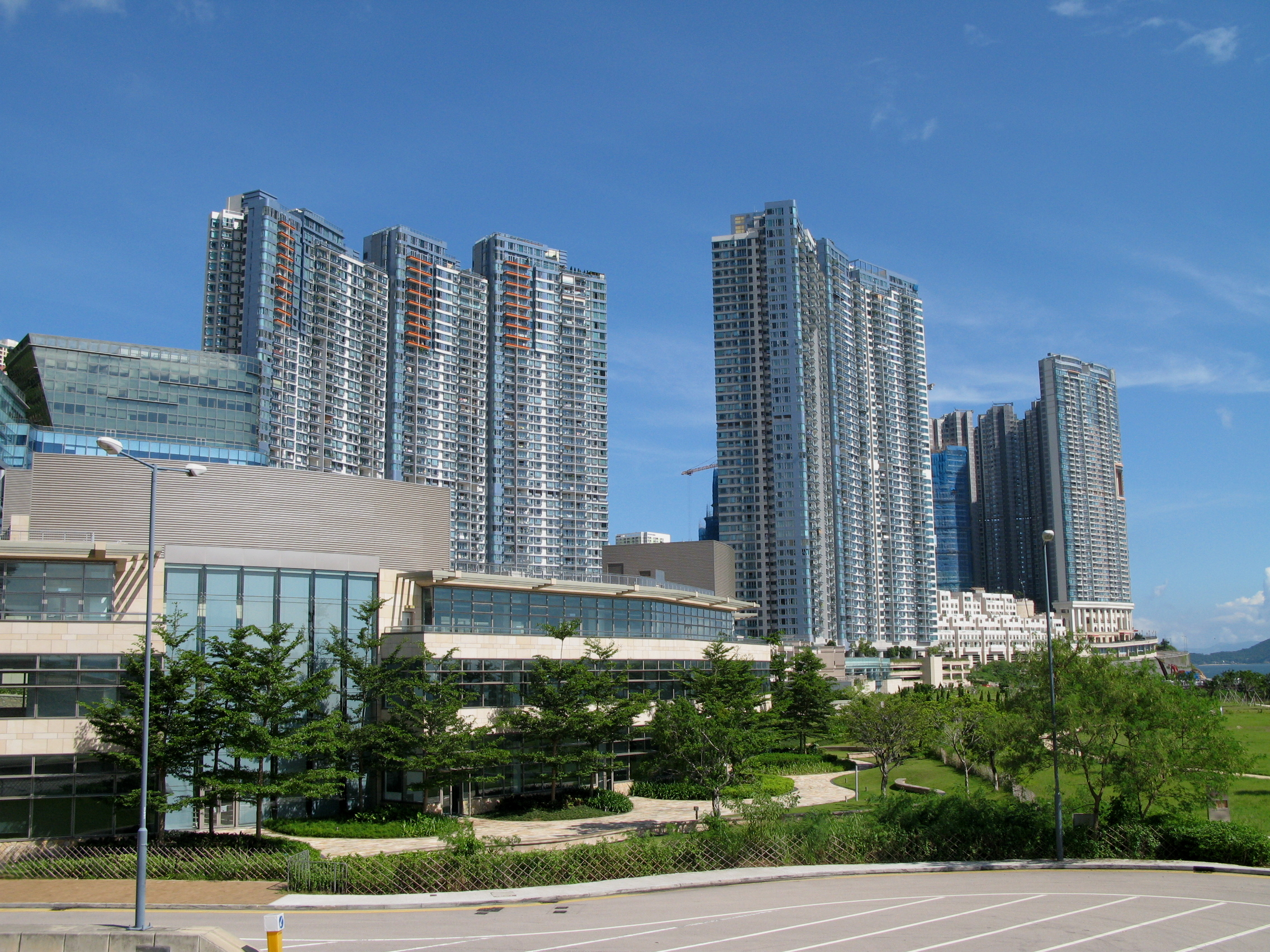 HK Residence Bel-Air near Cyberport